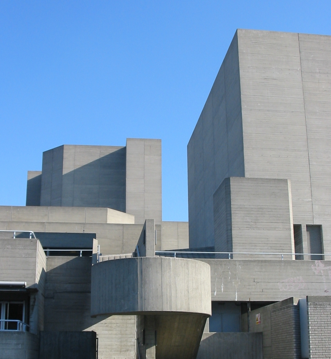 London